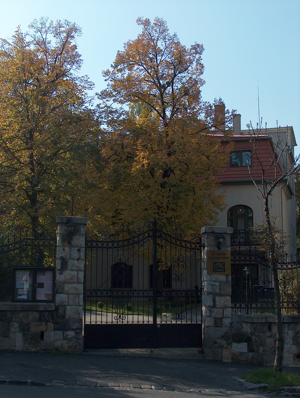 Urania Observatory This is a photo of a monument in Hungary, Identifier: -7772